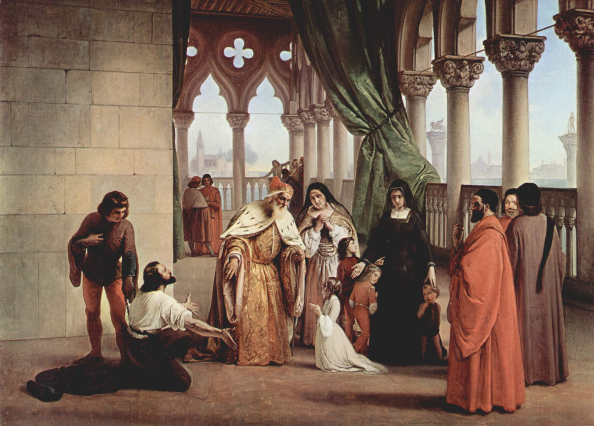 Francesco Foscari, Doge of Venice (c. 1372-1457) banishing his son Jacopo on the charge of treasonable correspondence while in exile; subject of Bryon's poetic drama The Two Foscari